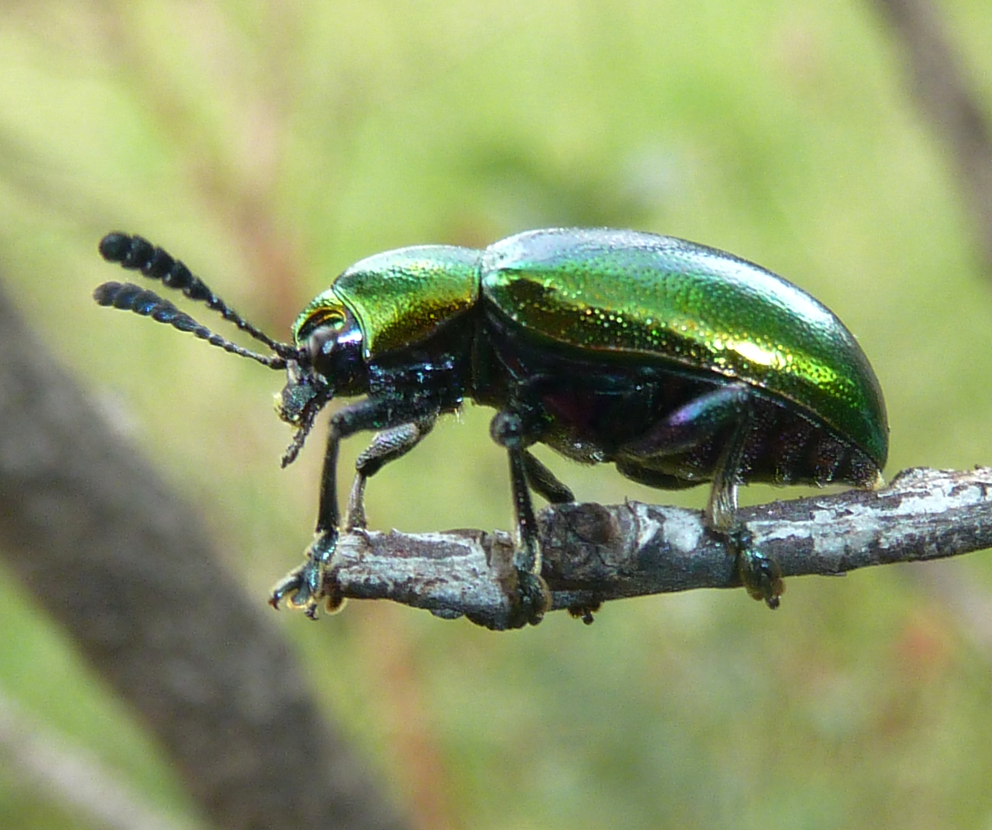 A Milkweed leaf beetle in Roodeplaat Nature Reserve, near Pretoria. This one may have been attracted to the flowers of a Resin tree, Ozoroa paniculosa, but they normally associate with Gomphocarpus and Riocreuxia.